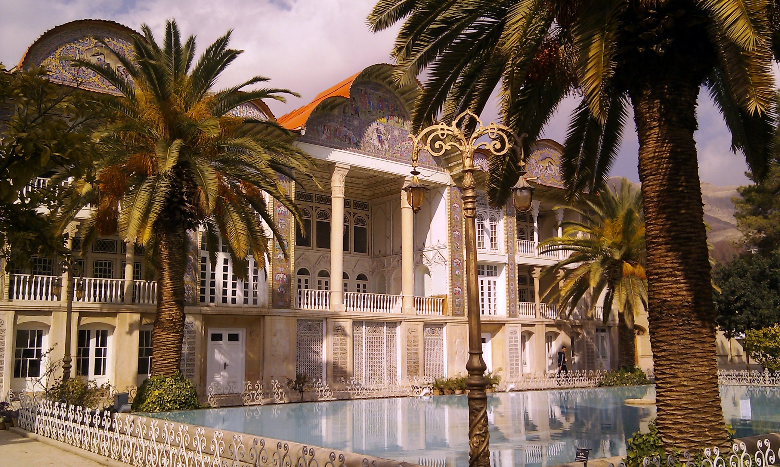 shiraz